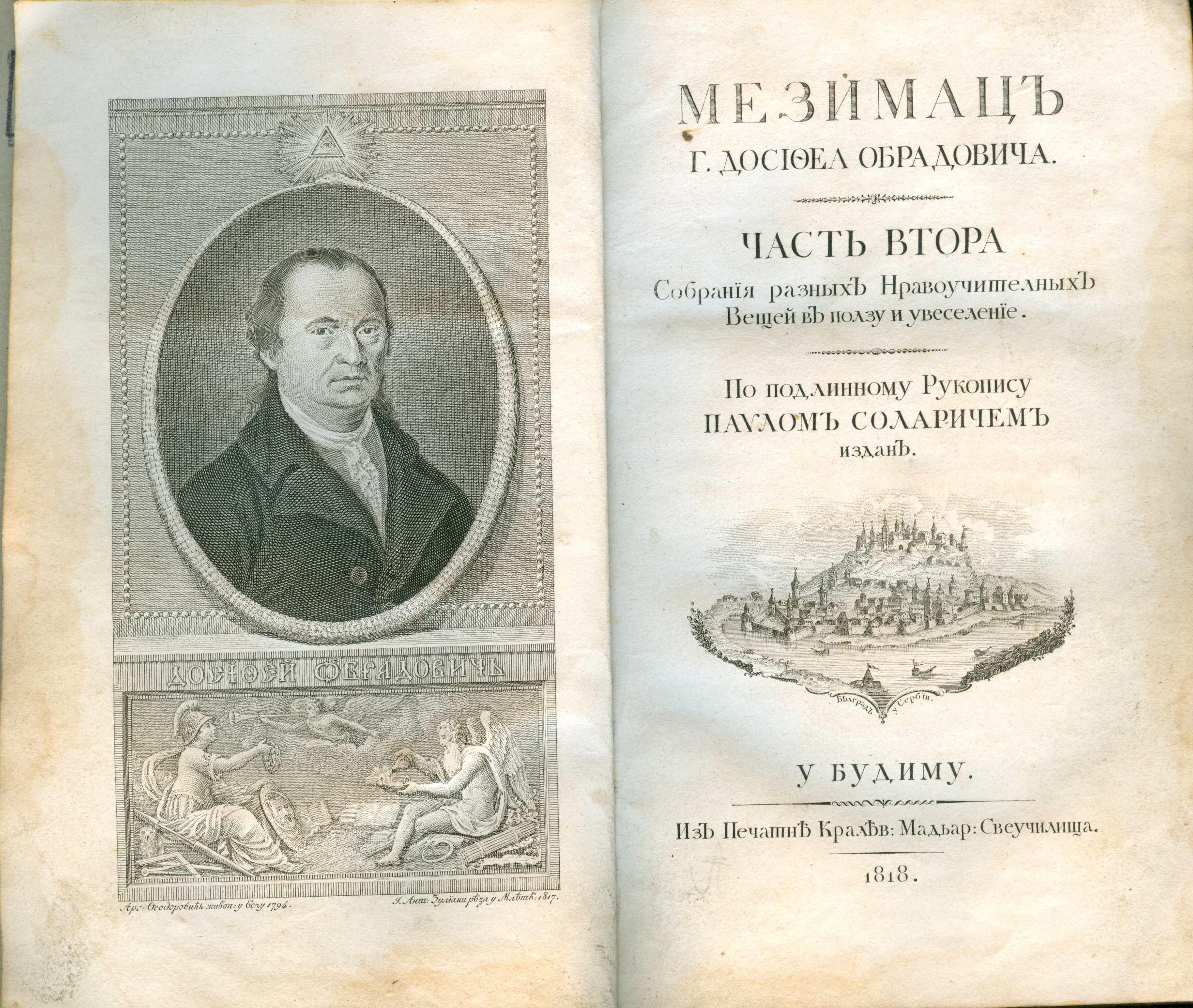 First two pages of "Mezimac" by Dositej Obradović (1818). A collection of essays on morale and practical philosophy. Srpski (latinica): Prve dve strane "Mezimca" Dositeja Obradovića (1818). Zbirka ogleda iz morala i praktične filozofije.